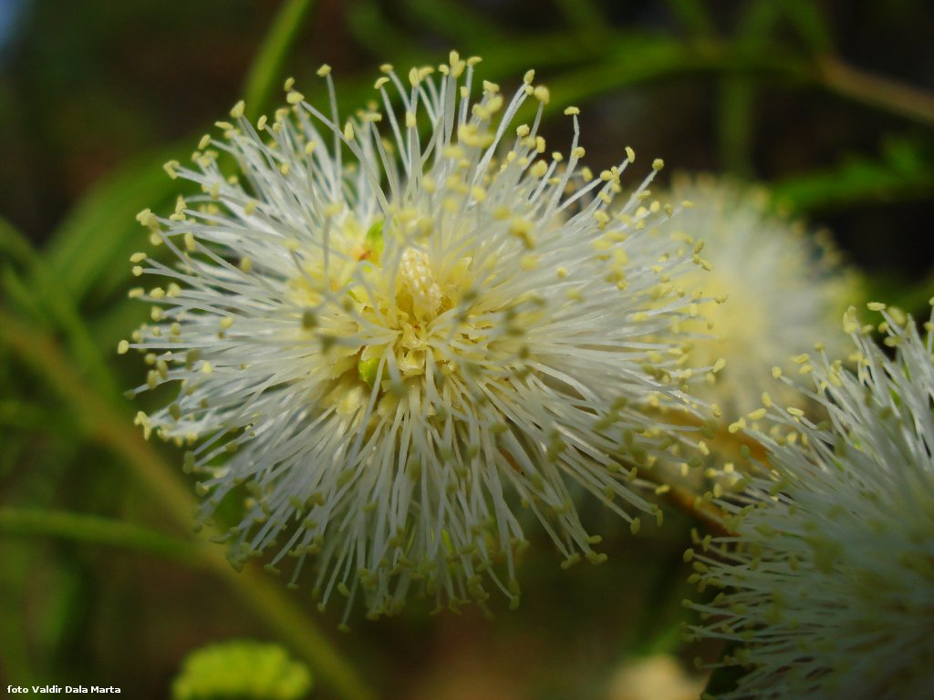 Flor de Angico-Vermelho